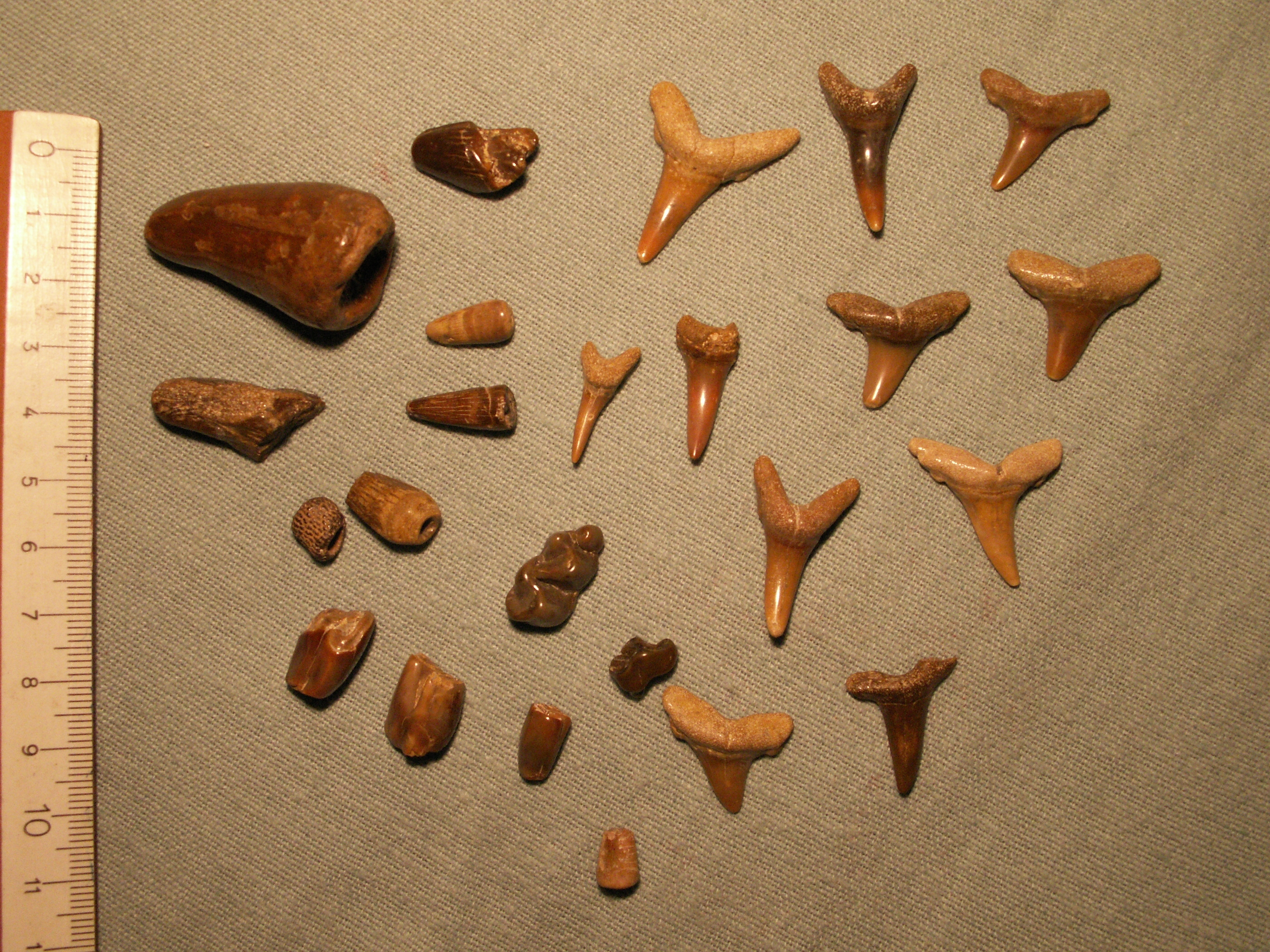 Fossil teeth from the “Graupensand” (Upper Marine Molasse, Burdigalian, Lower Miocene) of Riedern am Sand, SW Baden-Wurttemberg, SW Germany. Most teeth are from sharks (right) and crocodiles (left), only few are from mammals (bottom left, ?Steneofiber, a beaver, and ?Micromeryx, musk deer).